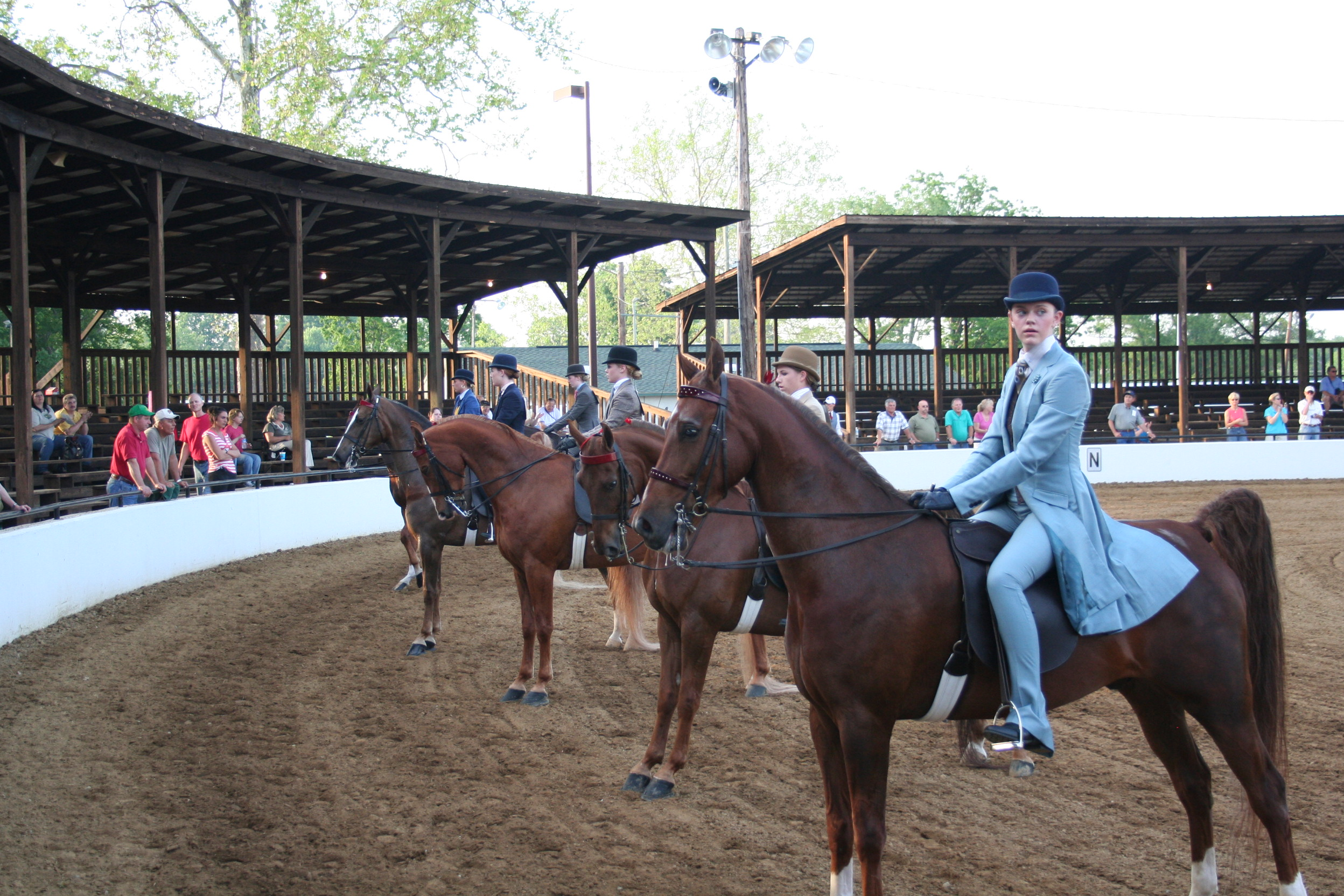 American Saddlebred class at the Boone County Fair (Kentucky)